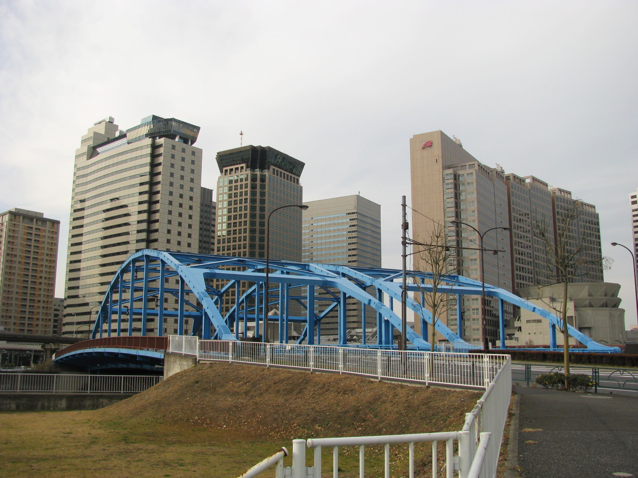 The Shinagawa-futō bashi is a bridge. This location is Higashi-shinagawa in Shinagawa, Tokyo, Japan.